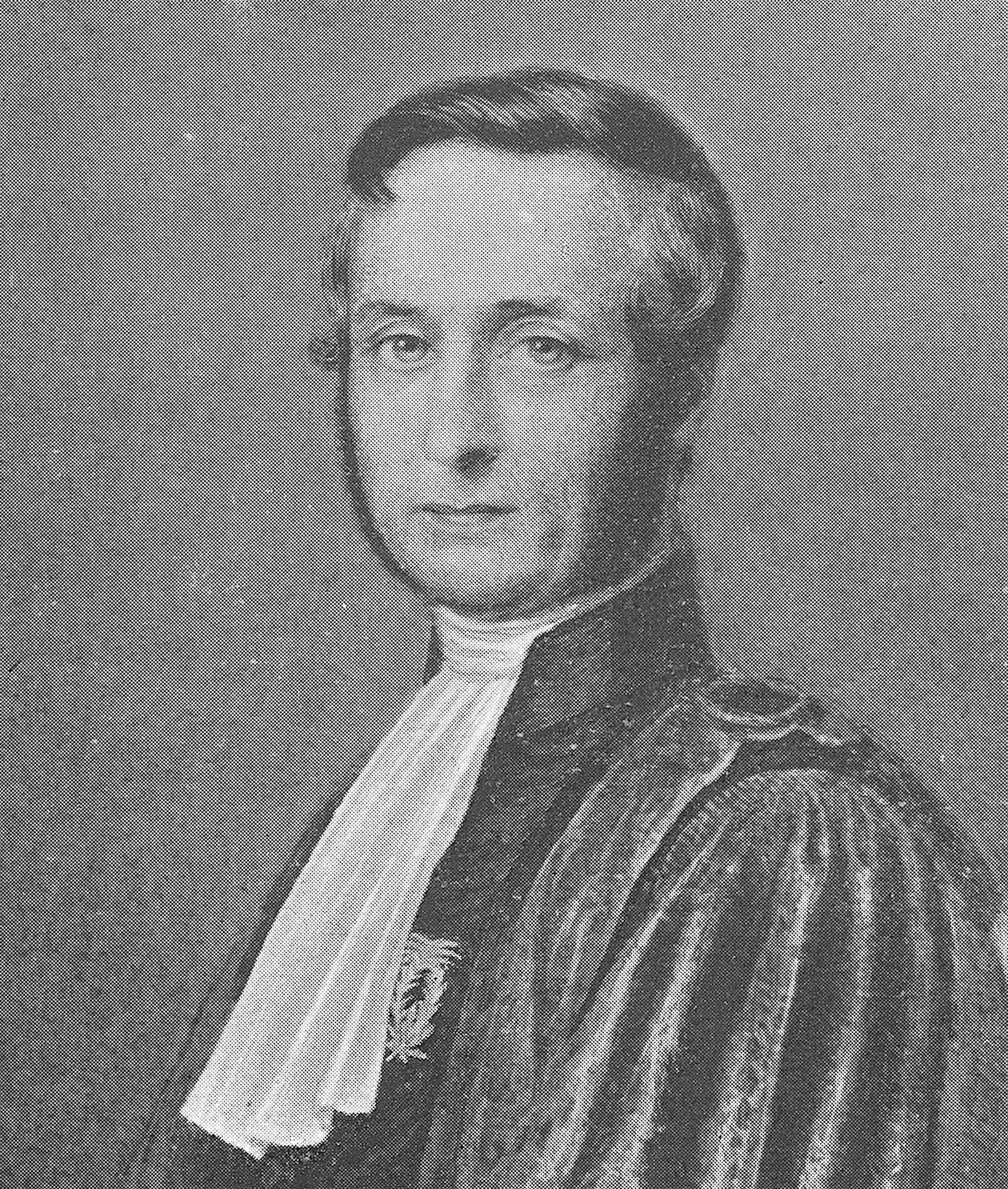 Félix Dujardin - by Louise Dujardin 1847 - Head